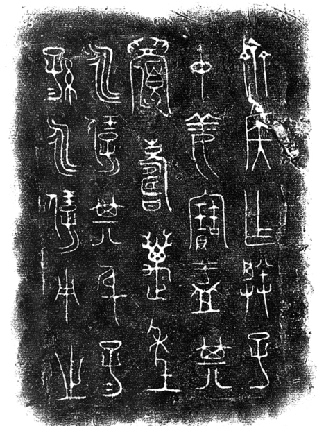 Rubbings of inscriptions on Qi Hou yu(齊侯盂 / 齐侯盂). yu(盂) is a container for water. the vessel was unearthed at Mengjin, Henan in 1957